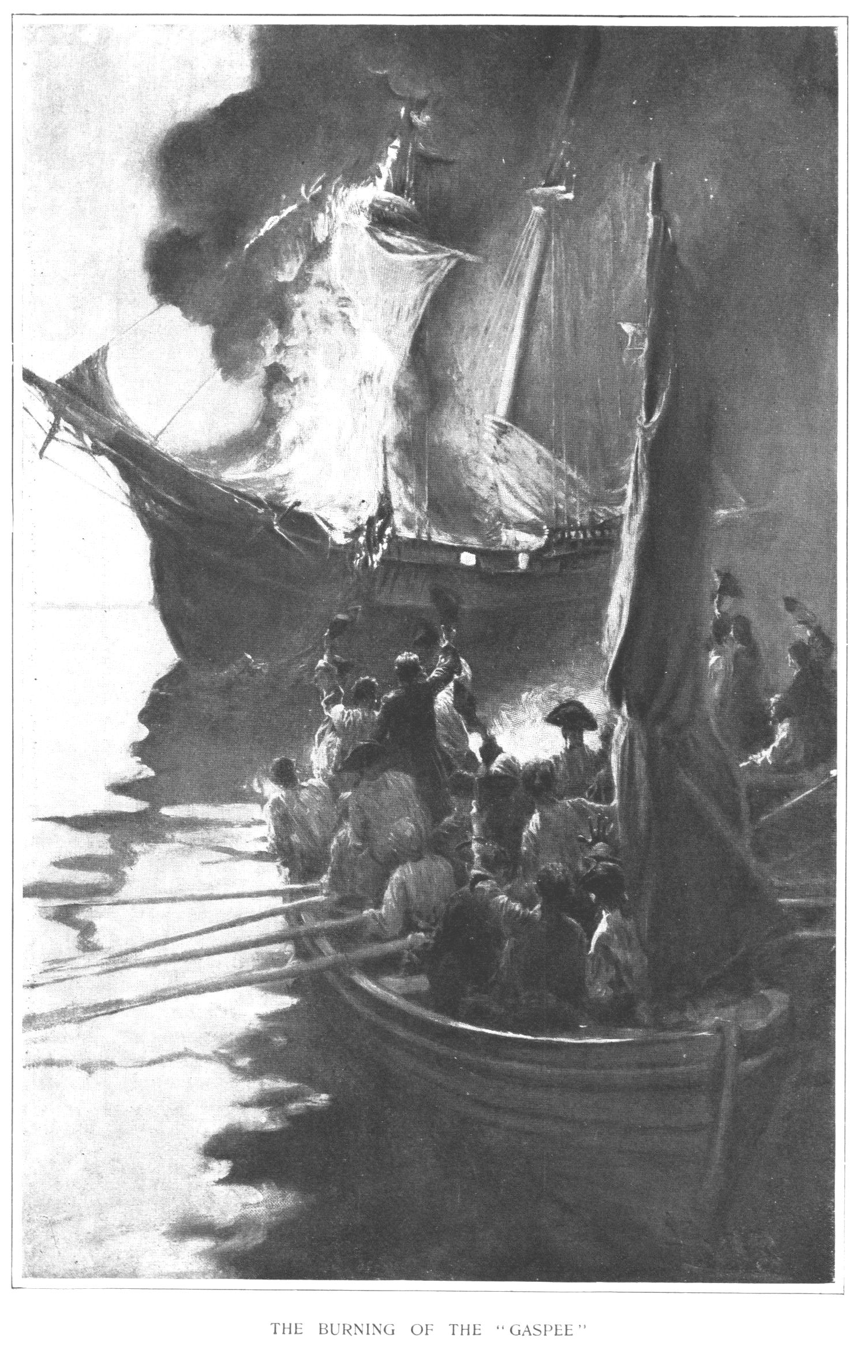 Engraving depicting the burning of the Gaspee.